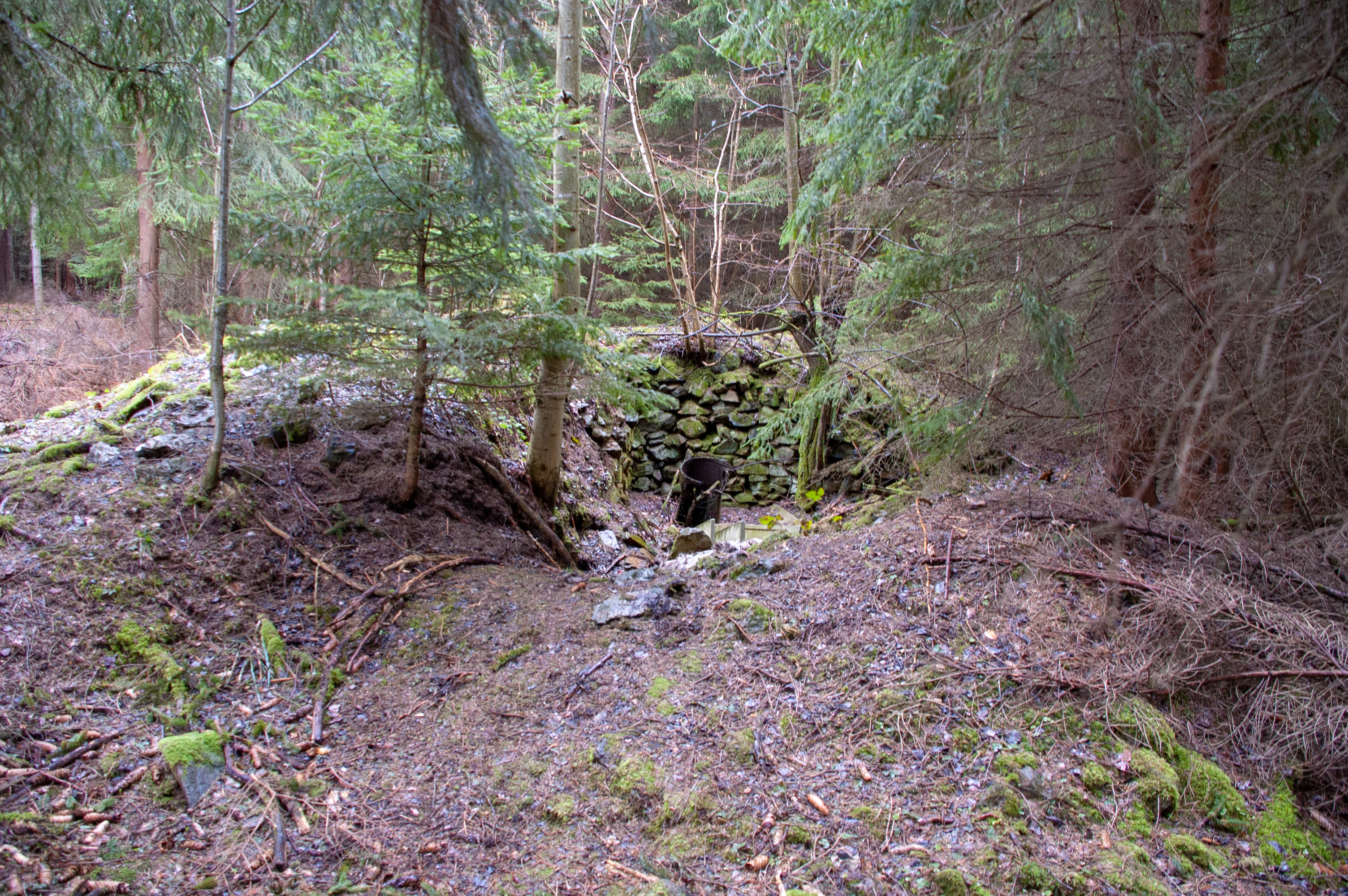 This image was created as a part of Editaton Prachatice (Czech).